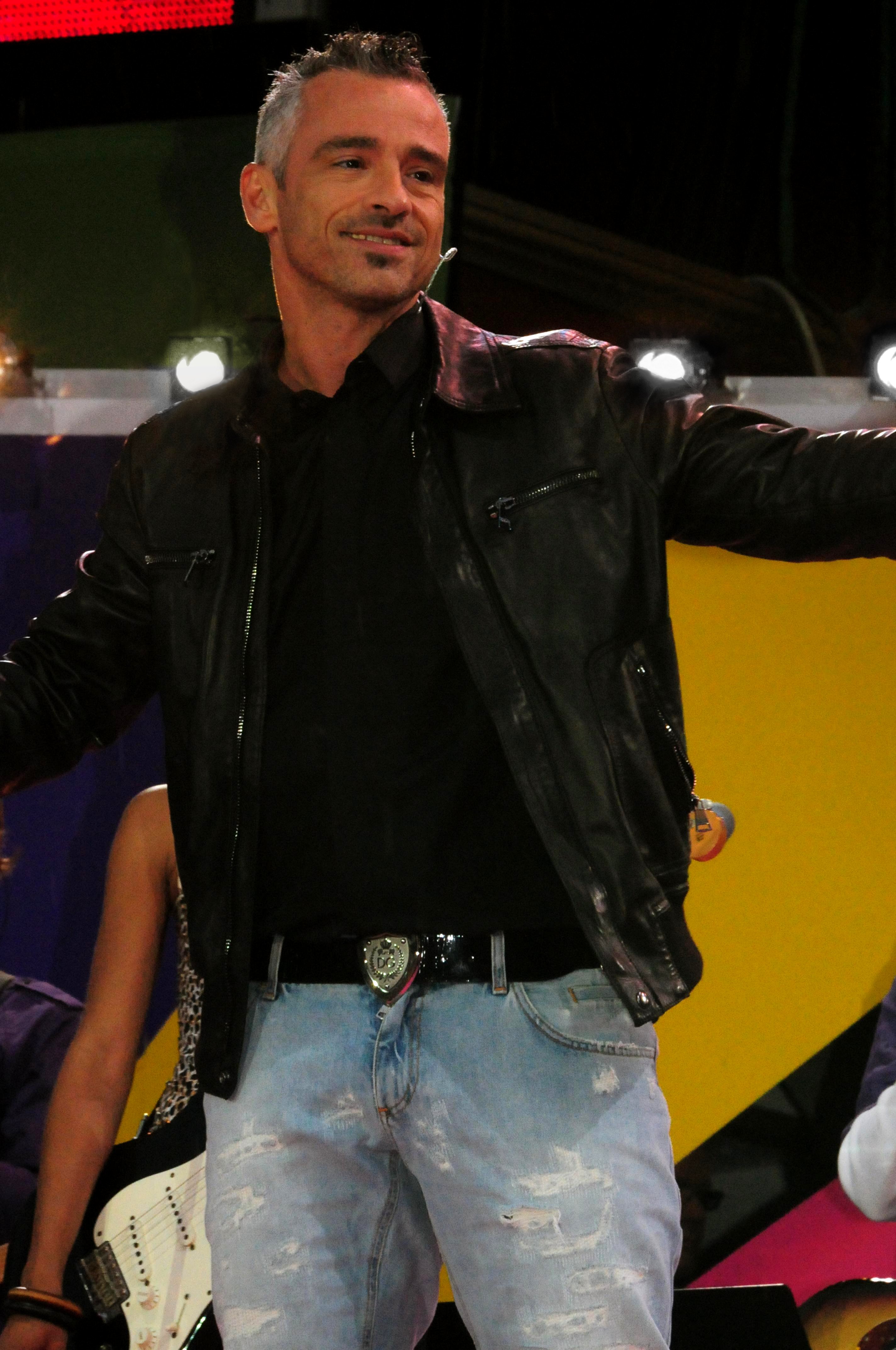 Eros Ramazzotti at Sommarkrysset 2009